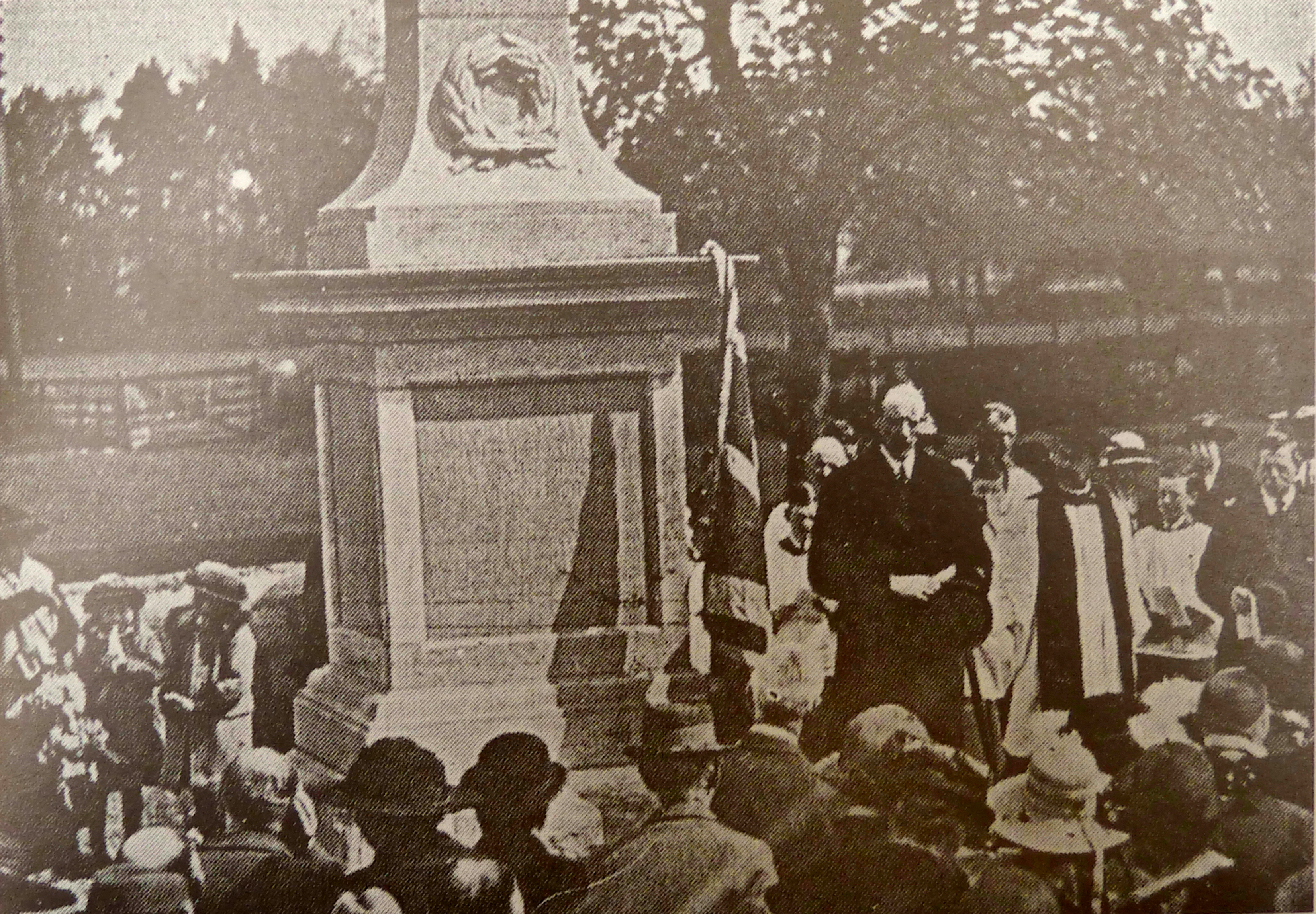 Killinghall War Memorial, at Killinghall, North Yorkshire, England. Showing Major Edward Wood MP unveiling the memorial in May 1921. To the right of Major Wood is Canon Elliston, vicar of the Church of St Thomas the Apostle, Killinghall, wearing ecclesiastical robes.